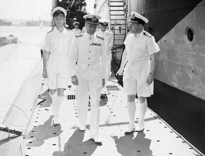 Admiral H D Pridham-Wippell (centre) with Commander A C Miers, on the right walking along the deck of HM Submarine Torbay at Alexandria Harbour.